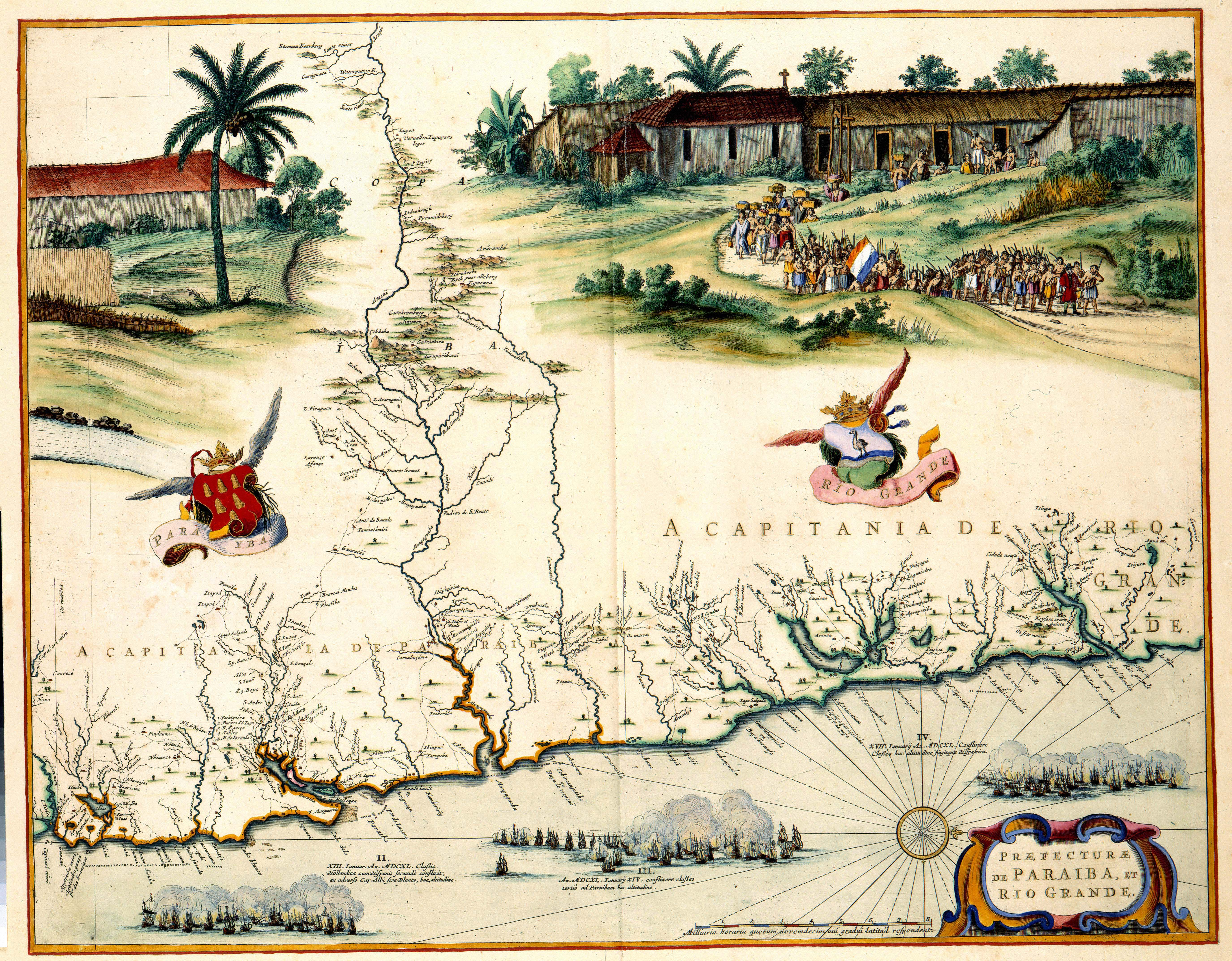 Between 1630 and 1654 a large part of Brazil was occupied by the Dutch. In this period the area was surveyed and mapped by the cartographers Cornelis Goliath (deceased 1667/1668) and Georg Marcgraf. The results were compiled in a decorative wall map in 1643. Joan Blaeu (1598-1673) used the wall map as his source for this map in 1662.